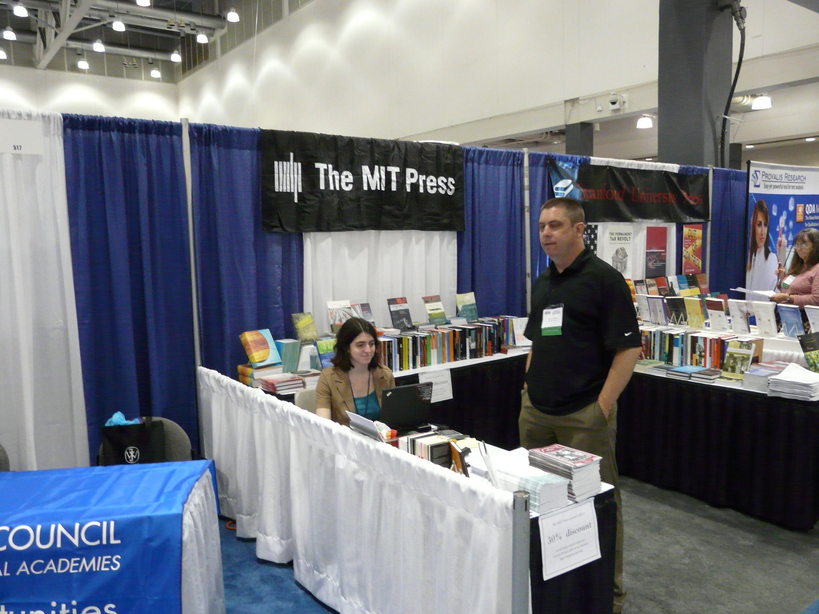 Boston. American Sociological Association conference.